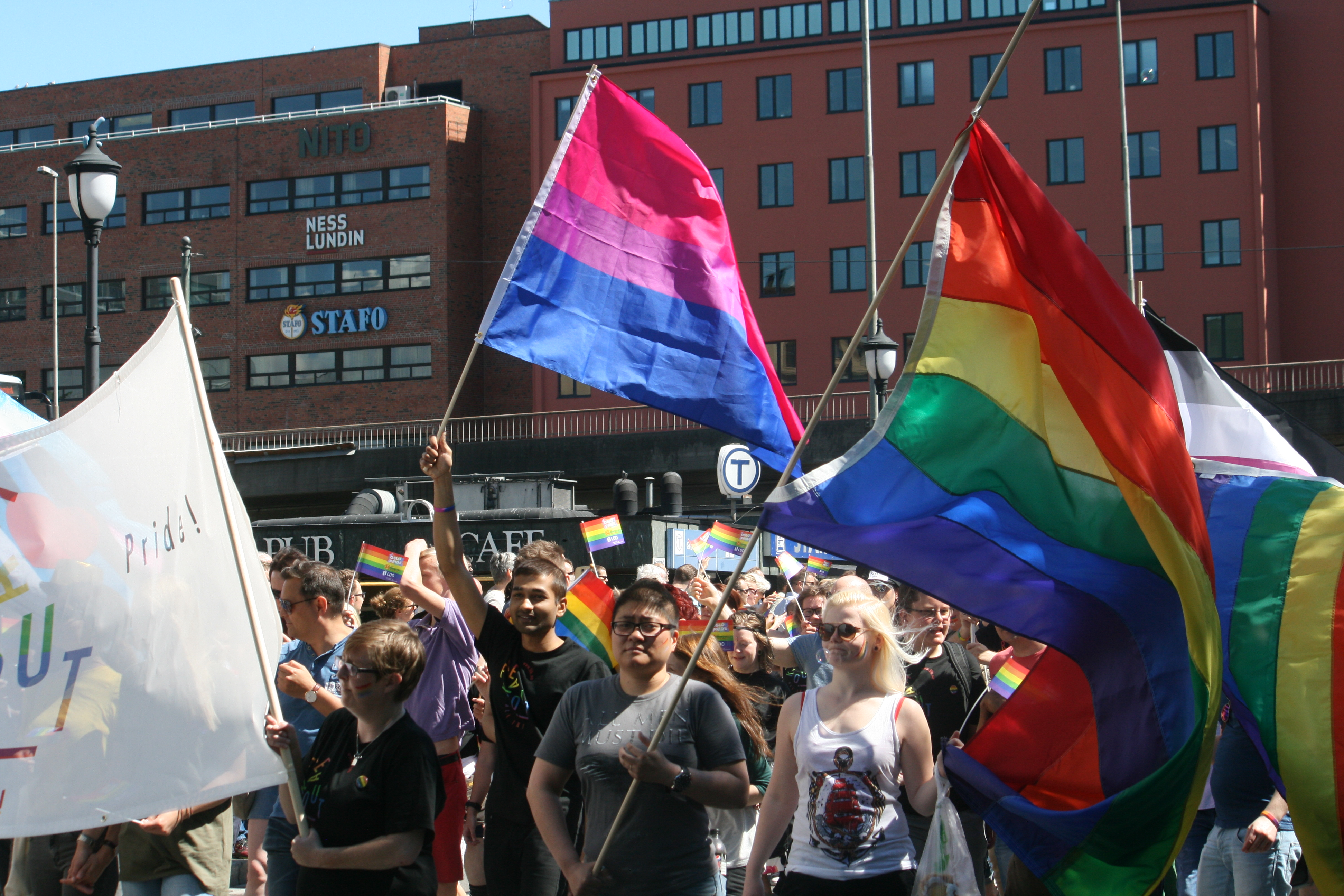 Fra Oslo Pride-paraden 2015